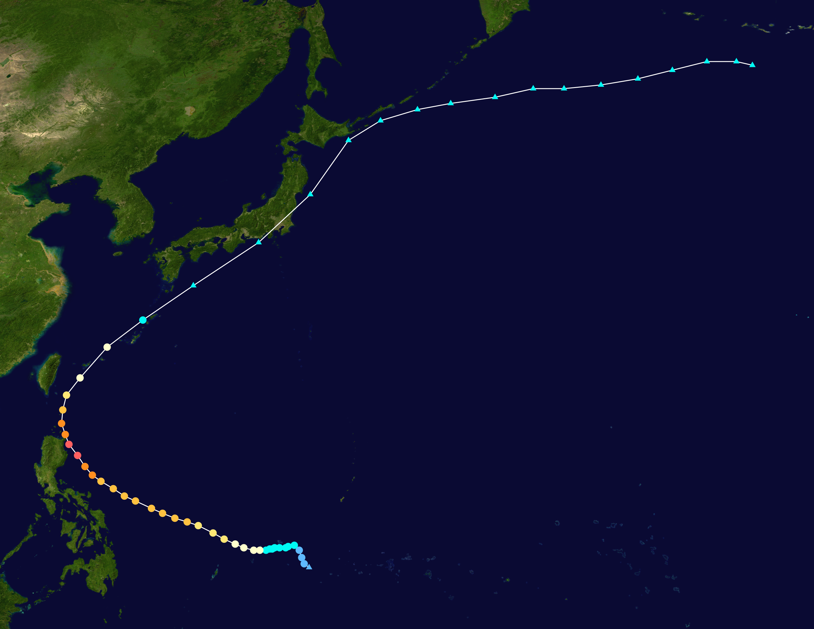 Track map of Typhoon Noul of the 2015 Pacific typhoon season. The points show the location of the storm at 6-hour intervals. The colour represents the storm's maximum sustained wind speeds as classified in the Saffir–Simpson scale (see below), and the shape of the data points represent the nature of the storm, according to the legend below. Saffir–Simpson scale Tropical depression≤38 mph≤62 km/h Category 3111–129 mph178–208 km/h Tropical storm39–73 mph63–118 km/h Category 4130–156 mph209–251 km/h Category 174–95 mph119–153 km/h Category 5≥157 mph≥252 km/h Category 296–110 mph154–177 km/h Unknown Storm type Tropical cyclone Subtropical cyclone Extratropical cyclone / Remnant low / Tropical disturbance / Monsoon depression